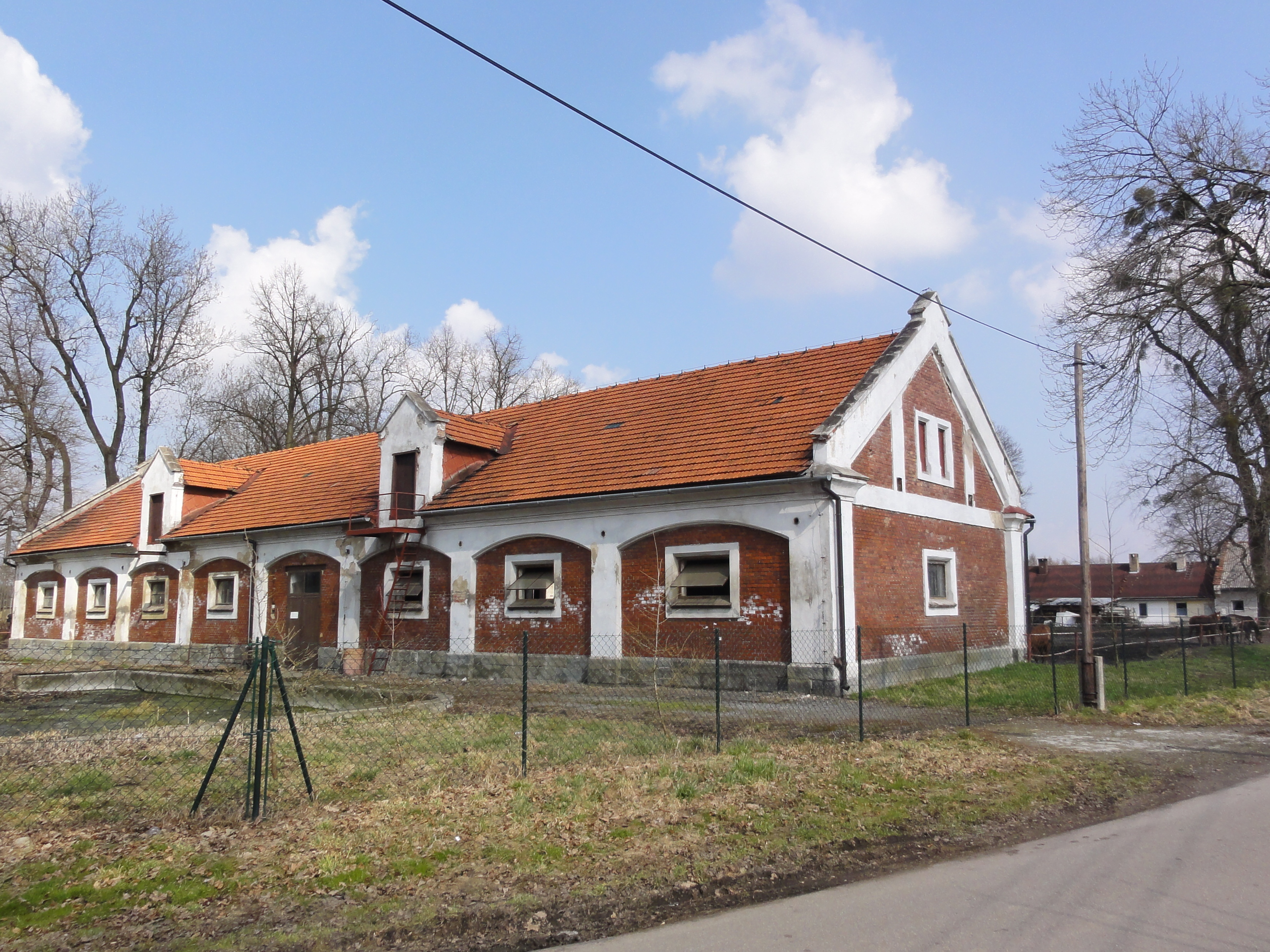 Stud farm in Ochaby